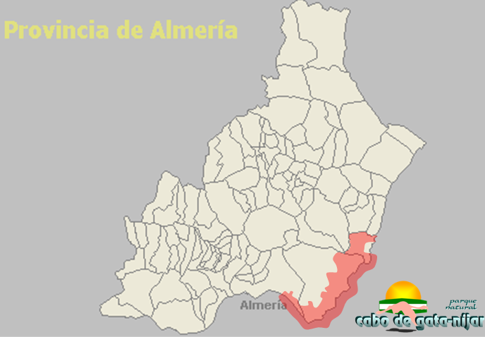 Made by: M.Romero Schmidtke from (public domain)